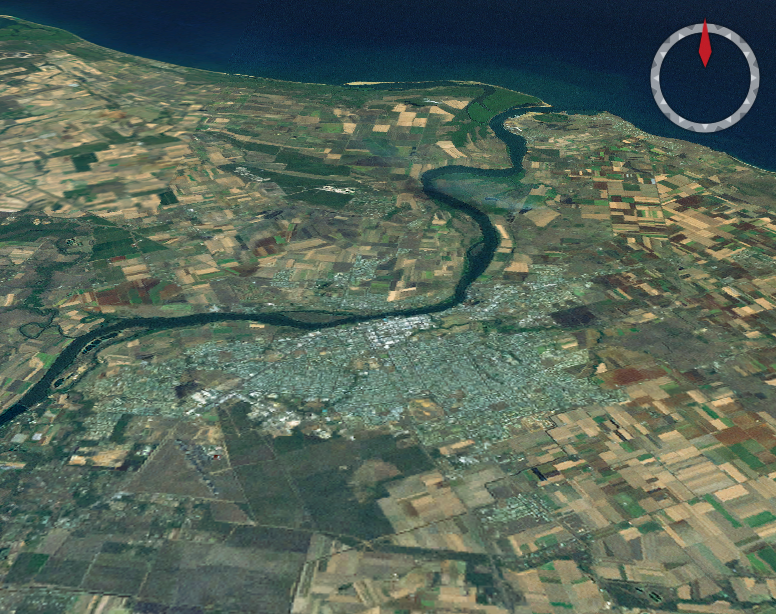 Bundaberg, Queensland NASA World Wind Landsat montage.